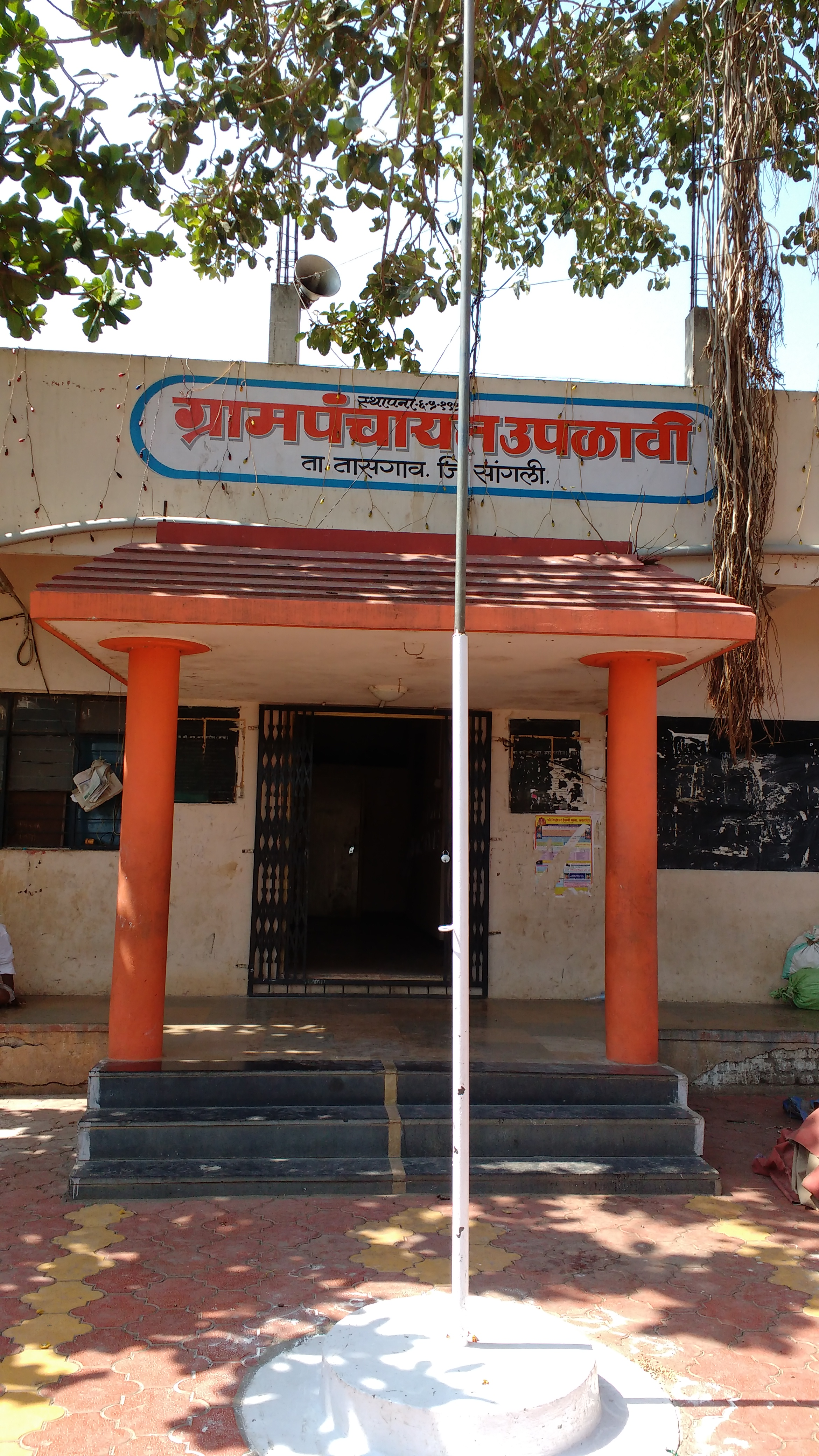 Grampanchayat Upalavi